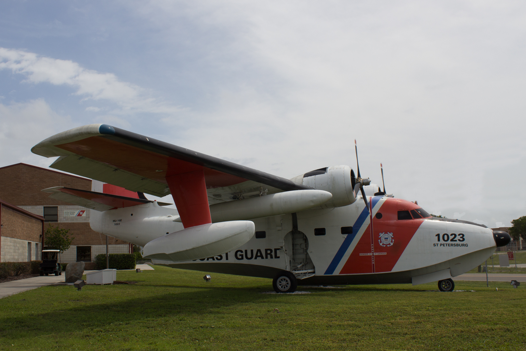 A completely restored Albatross, designated USCG-1023, sits in front of the entrance to the Air Station.